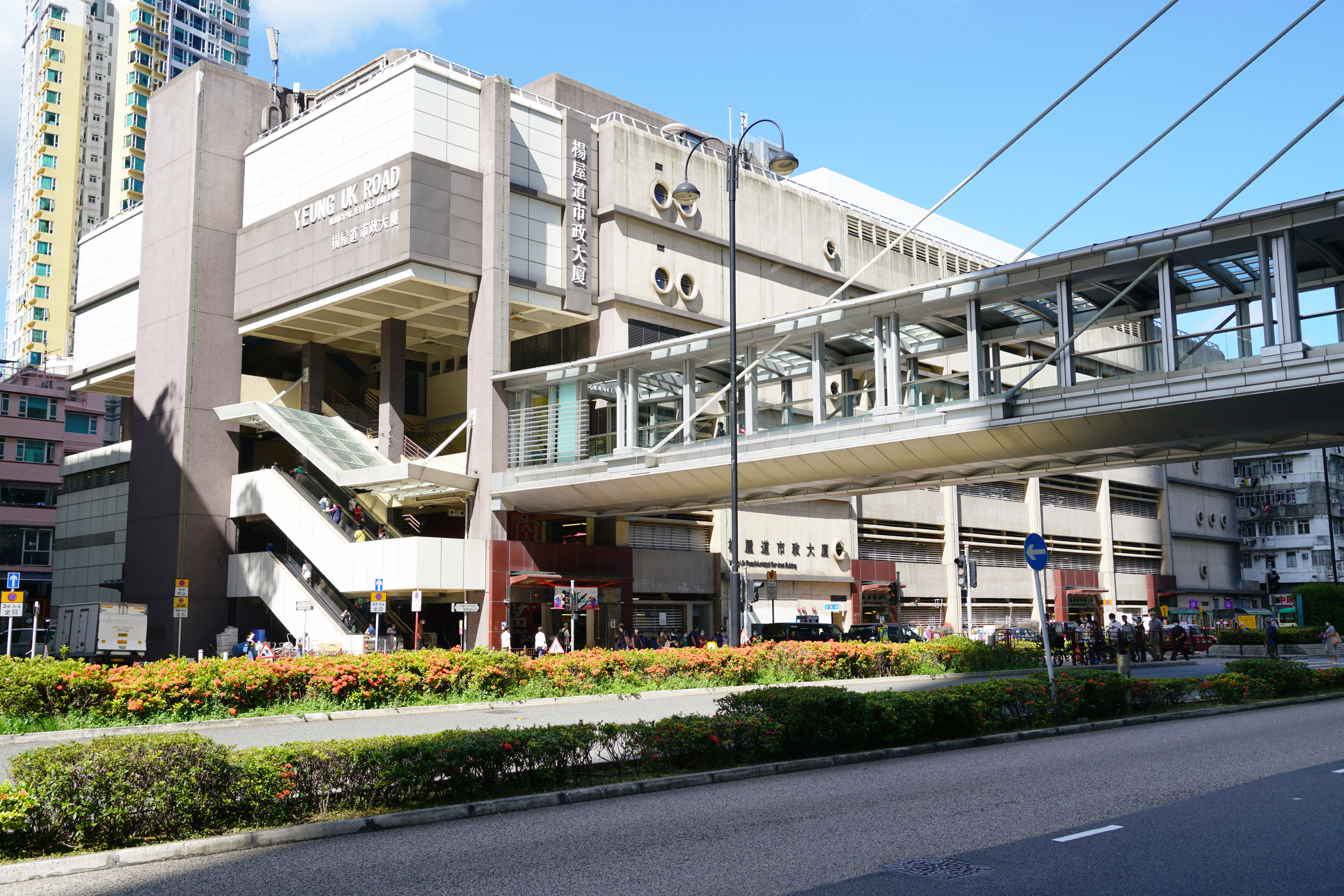 Yeung Uk Road Municipal Services Building, Hong Kong.